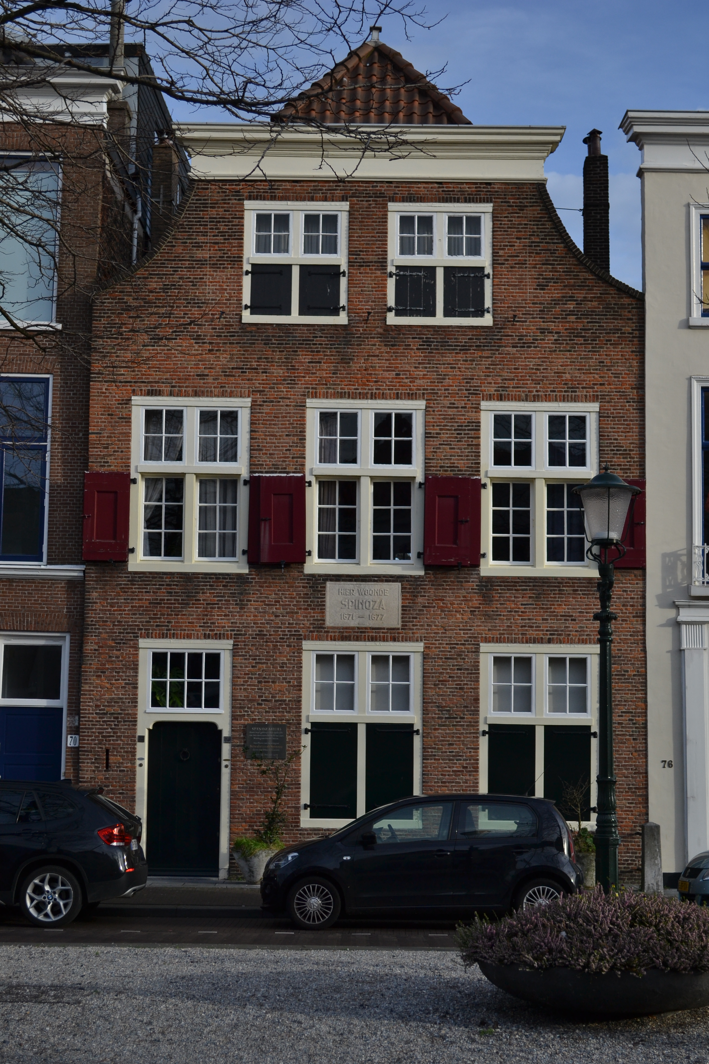 A view of the Spinozahuis, Paviljoensgracht 72, The Hague, where Benedictus Spinoza (Baruch Spinoza) died in 1677.